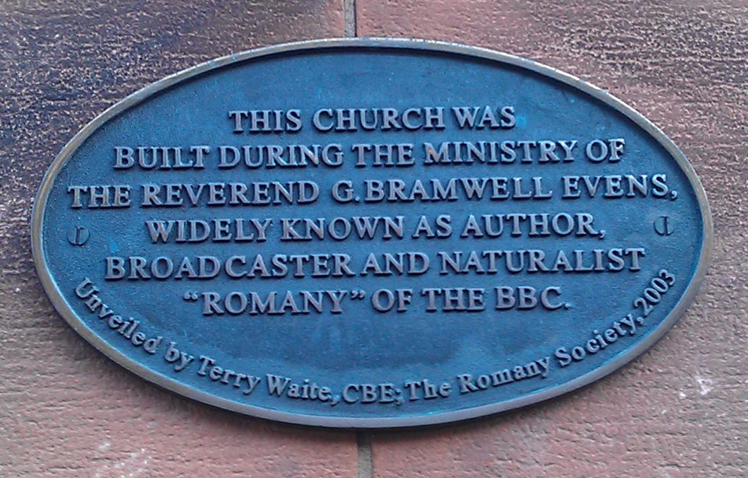 Plaque commemorating George Bramwell Evens on his former church at Carlisle. Transcription: This church was built during the ministry of the Reverend G. Bramwell Evens, widely known as author, broadcaster and naturalist "Romany" of the BBC. Unveiled by Terry Waite, CBE; The Romany Society, 2003